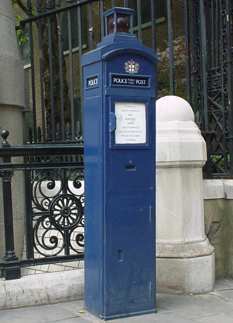 Police — Call Box — Telephone Post — (non-working) still to be seen at St Martins Le Grand London. Photo taken by Lonpicman.